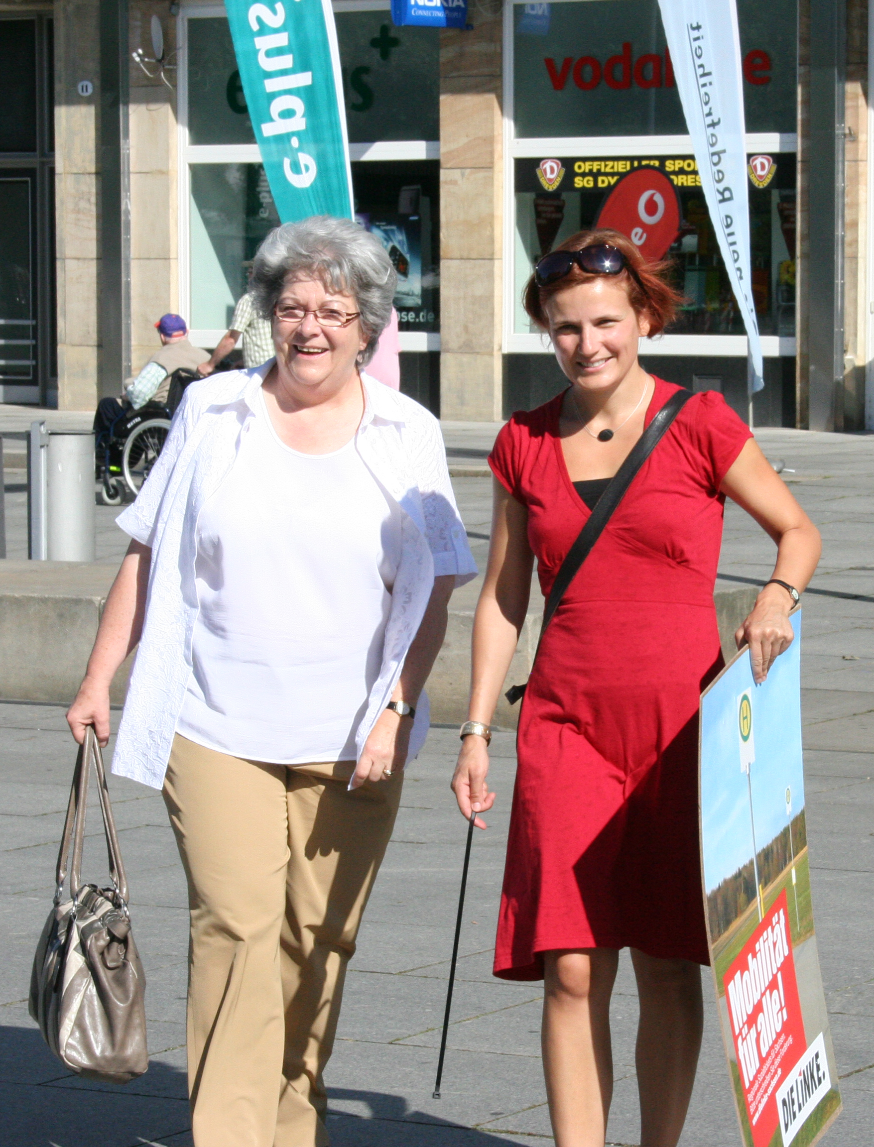 Edith Franke und Katja Kipping